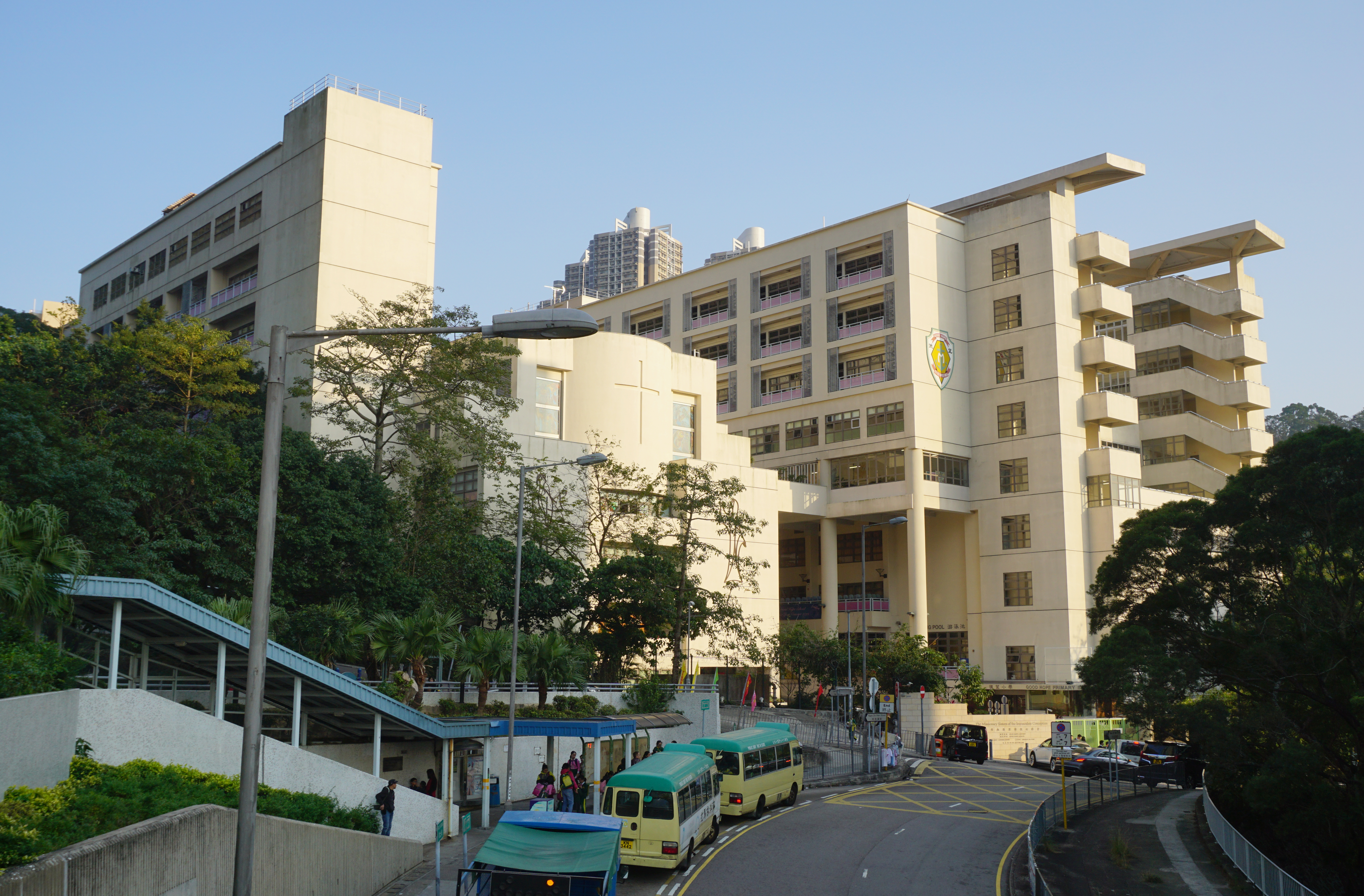 Good Hope Primary School in Ngau Chi Wan, Hong Kong.